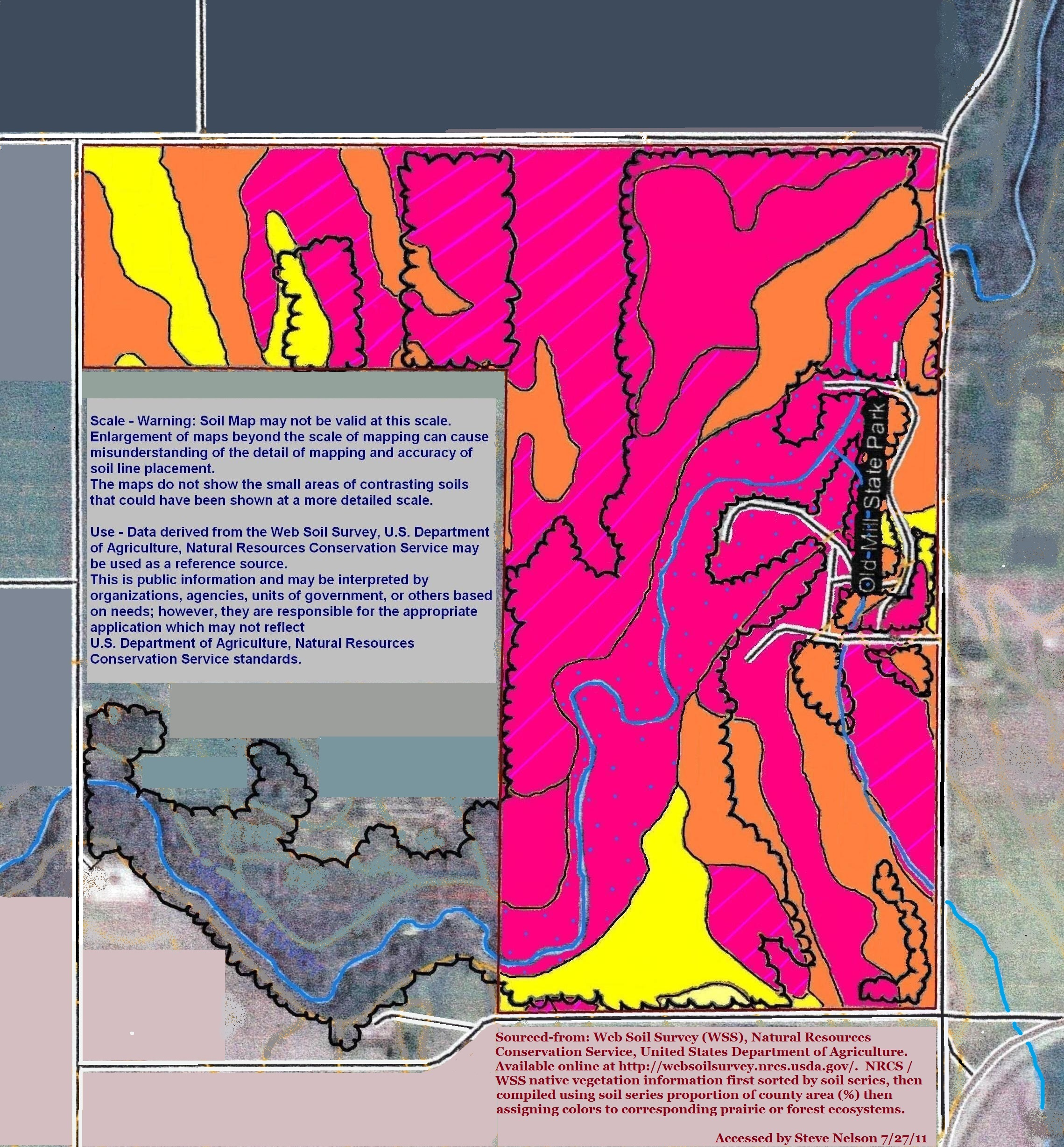 Old Mill State Park is located in northwestern Minnesota and is good example of savanna and prairie. Bur oaks have to be protected from Bur Oak Blight (BOB) disease, discovered in 2011 in Marshall County.